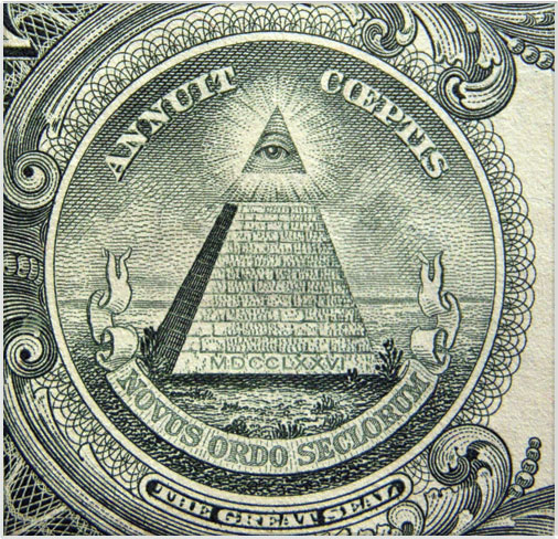 The Great Seal of the United States on the back of the $1 bill.